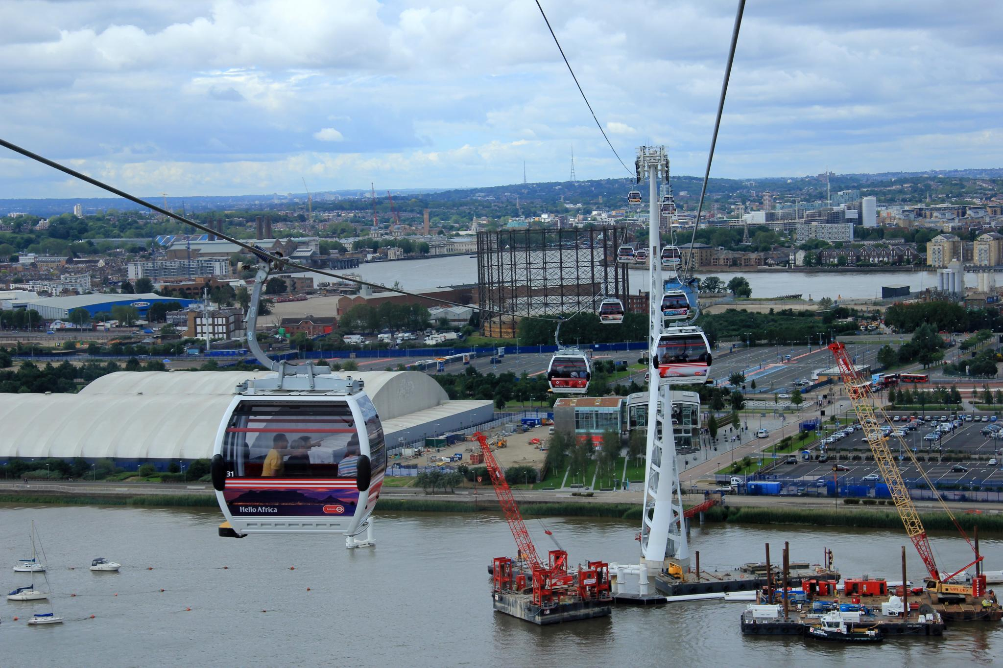 The new Thames cable car, spanning the river, opened to the public on 28th June 2012. The Emirates Air Line links the O2 Arena in Greenwich, south-east London, with the ExCel exhibition centre at the Royal Docks in east London. The service can carry 2,500 people an hour. A single adult fare on the pay-as-you-go Oyster card will cost £3.20 while the cash fare is £4.30. But the fares are not included in travelcards or Oyster capping. The service will operate through the week from 07:00 until 21:00. The gates will open an hour later on Saturdays while the service will run from 09:00 on Sundays. Passengers will also be able to make a non-stop round trip on the cable car, with views of the City, Canary Wharf, the Thames Barrier and the Olympic Park, at a cost of £6.40 with Oyster. But Transport for London said a one-way journey at peak time will be between four and five minutes long, but off-peak the same journey will last about 10 minutes. The Dubai-based airline Emirates is sponsoring the cable car for 10 years at a cost of £36m. The total cost of the project is about £60m, £45m of which went towards building it. Mayor of London Boris Johnson called it a "stunning addition to London's transport network" and a "must-see destination in its own right". "We said we could deliver this travel link in quick time, and today we have shown that this city is capable of attracting serious investment to deliver world class infrastructure. As the world's eyes focus on our city, I can think of no better message to send out across the globe."